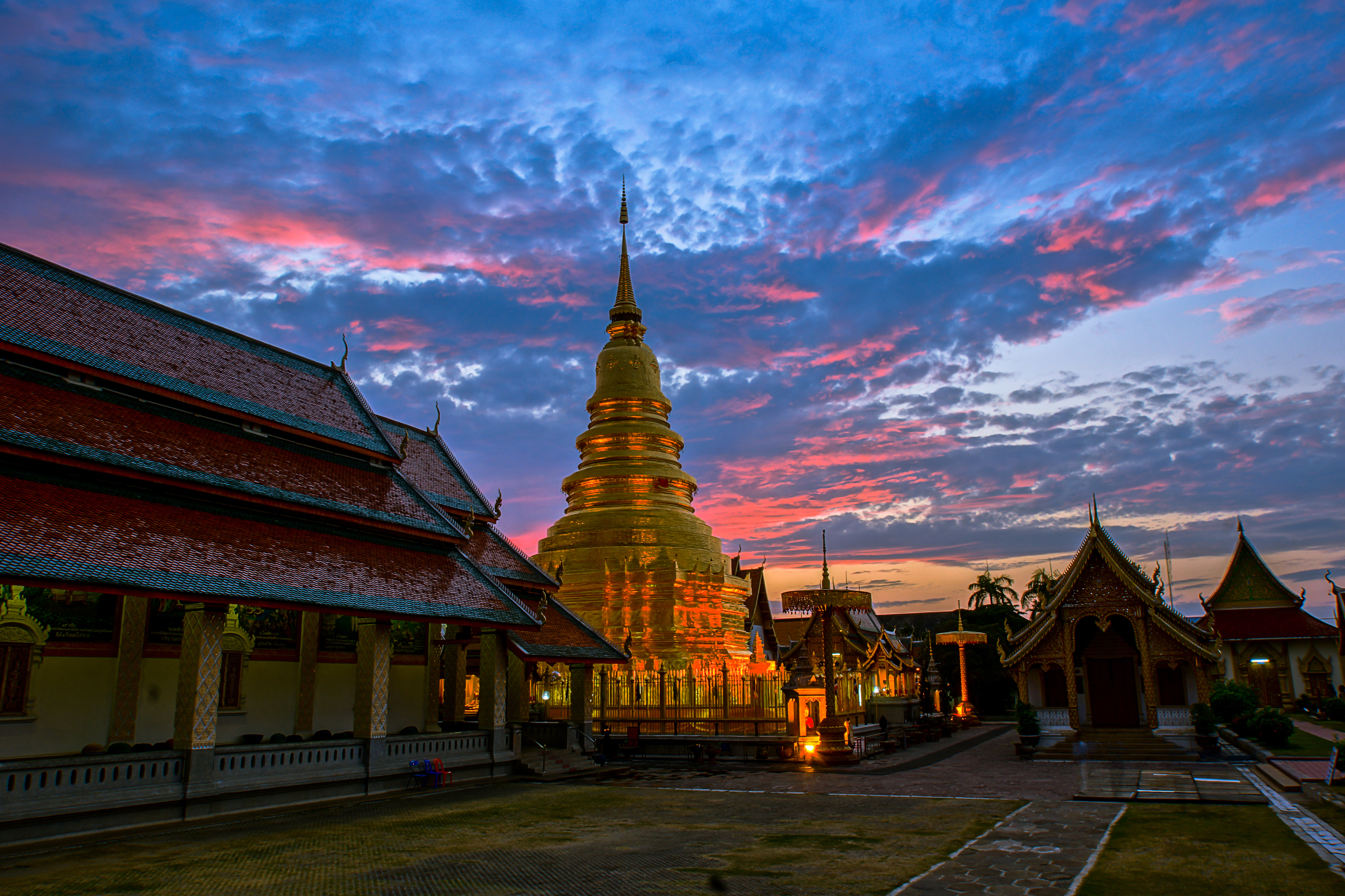 Wat Phra That Hariphunchai